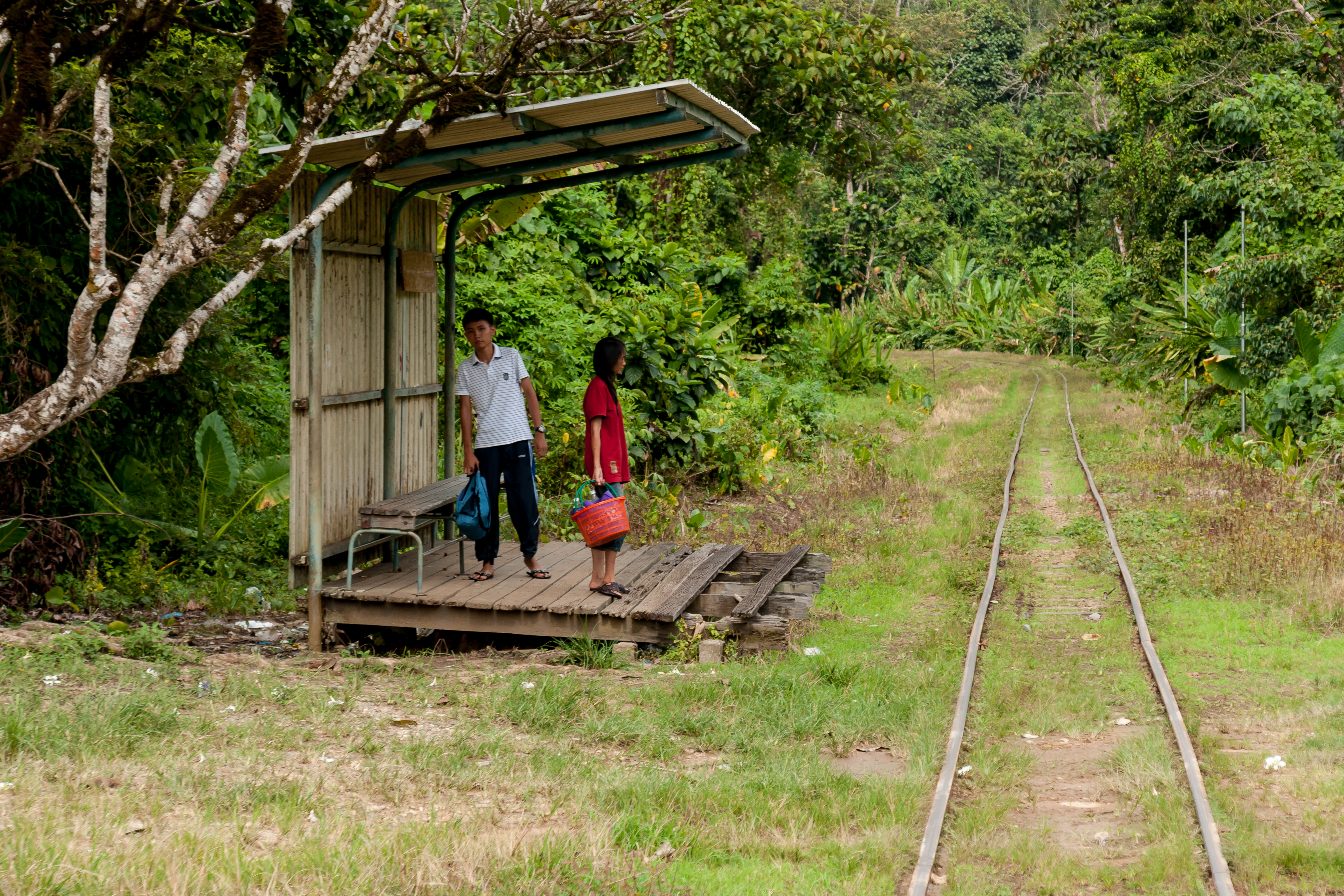 Track of Sabah State Railway in the Padas Valley, Sabah, Malaysia. The tram shelter is Salinwangan Lama at railway kilometer 104.3